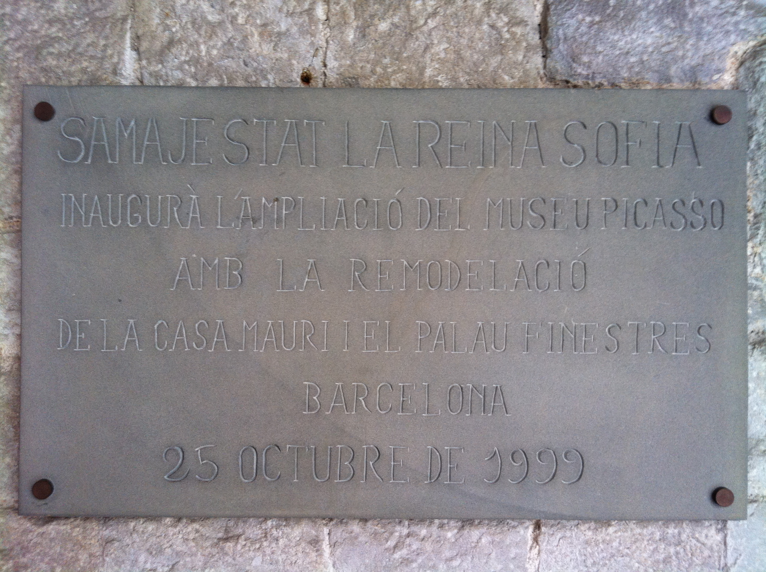 Plaque of the ampliation of Museu Picasso in 1999